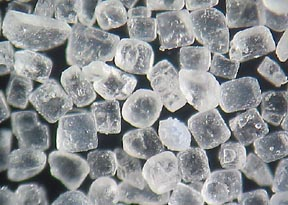 A microscopic image of crystals of sodium chloride (NaCl), commonly known as salt.